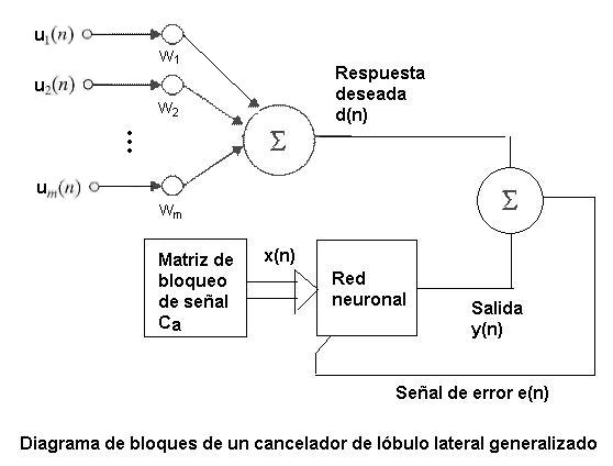 Block diagram of generalized sidelobe canceller.